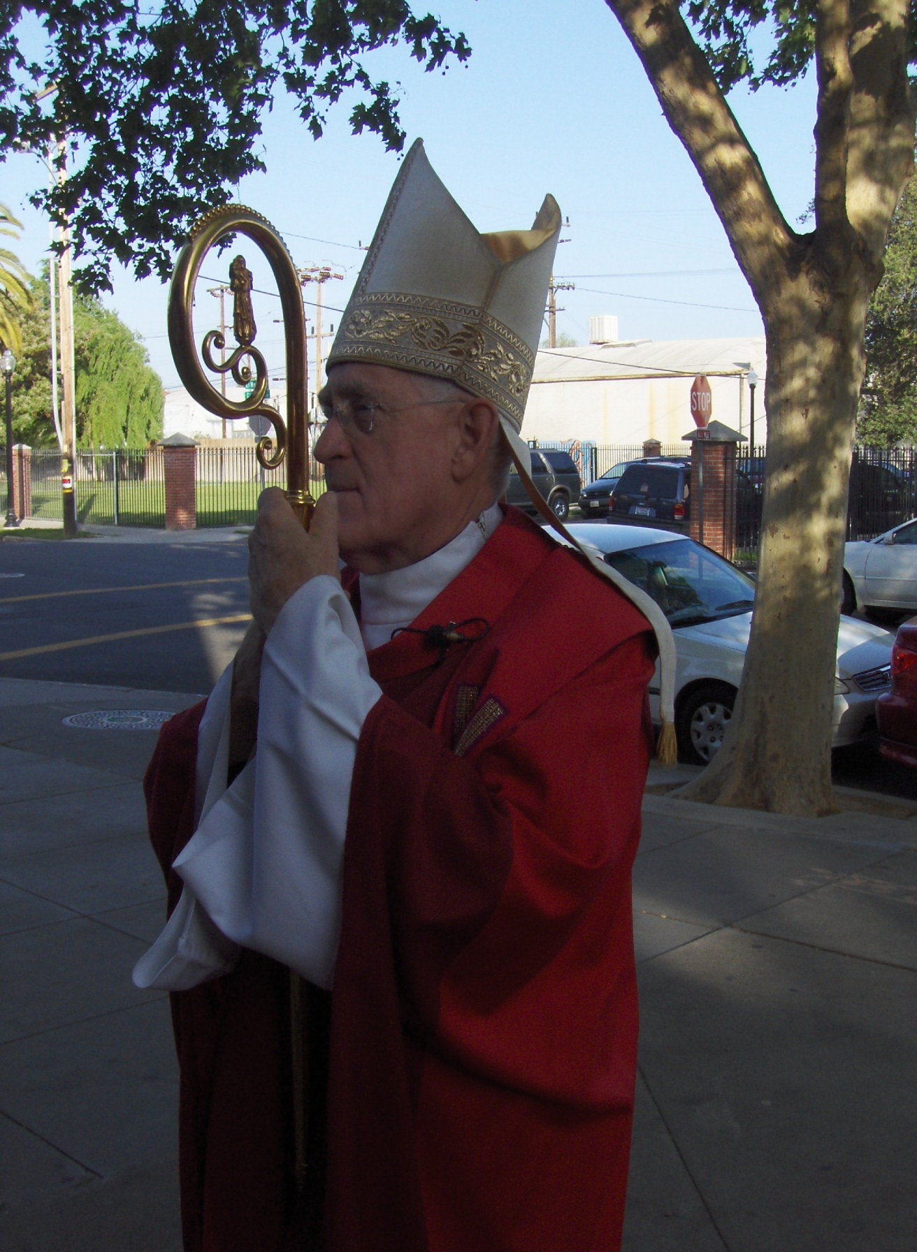 Bishop William Weigand prepares to enter St. Joseph Church in Sacramento, CA for a Confirmation Mass.